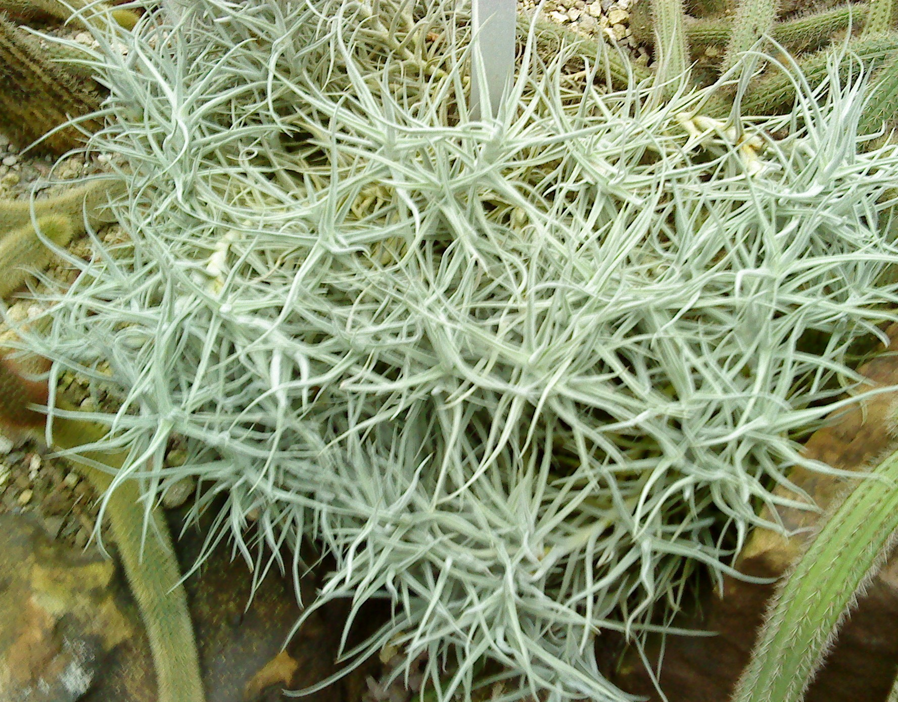 Tillandsia paleacea